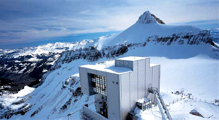 View from the lower summit of the Scex Rouge towards the Mario Botta sation. In the background: Oldenhorn (3123m, Becca d'Audon). West face.